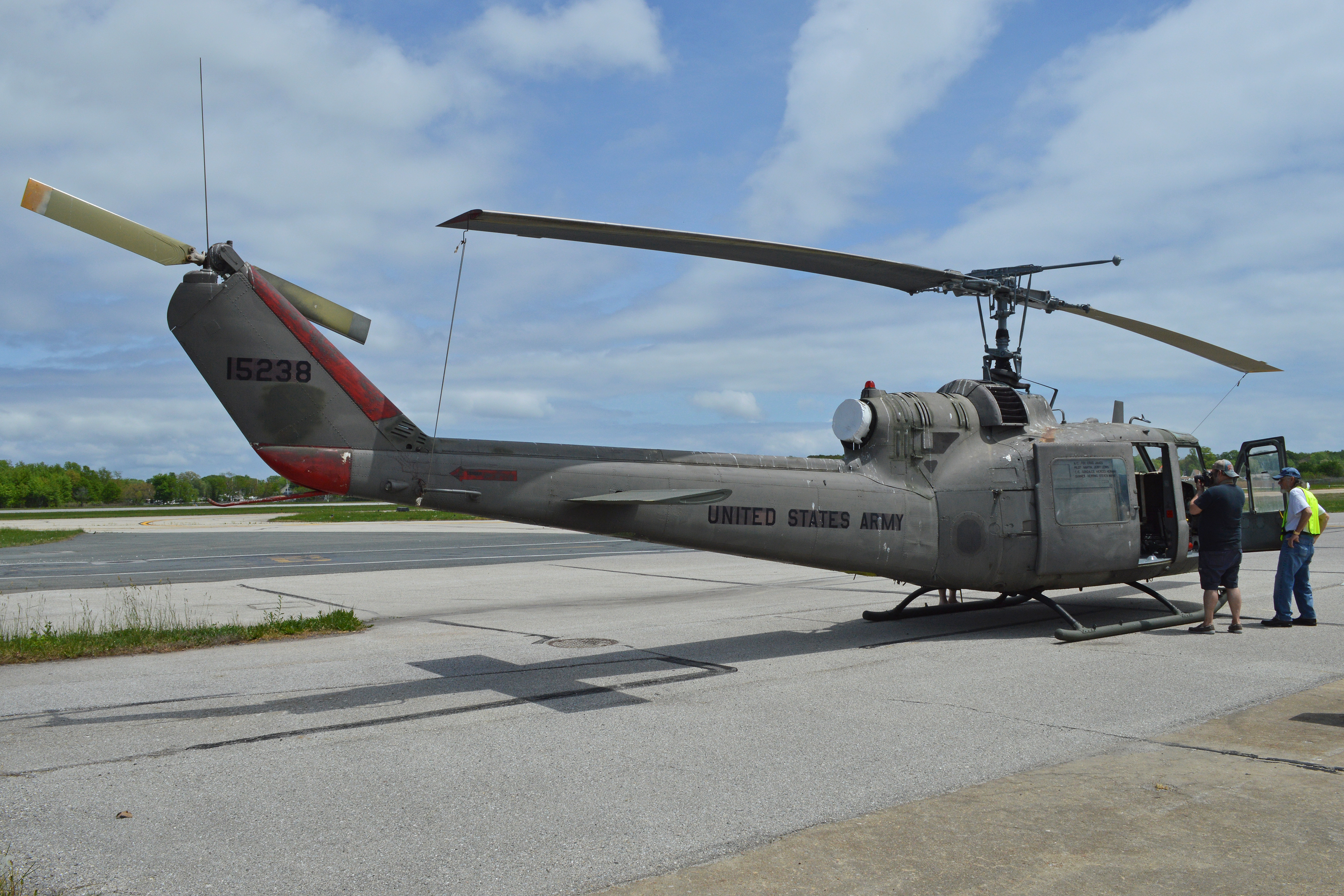 Full US Army serial 66-15238. c/n 1966. On display with the Maryland Aviation Museum as part of the Strawberry Point Flightline. Martin State Airport, Maryland, USA. 09-5-2015